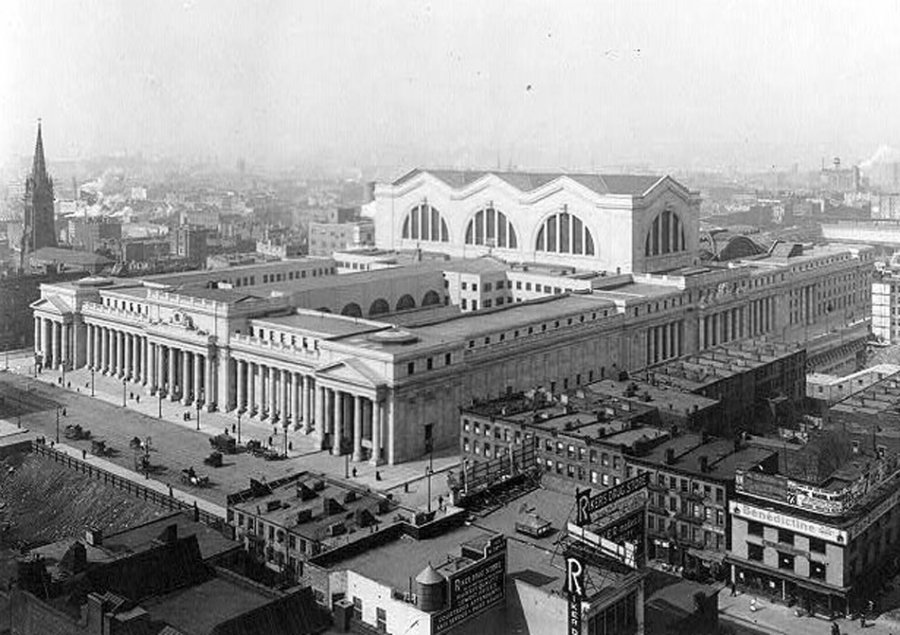 Exterior view of New York City's Pennsylvania Station from the northeast in 1911